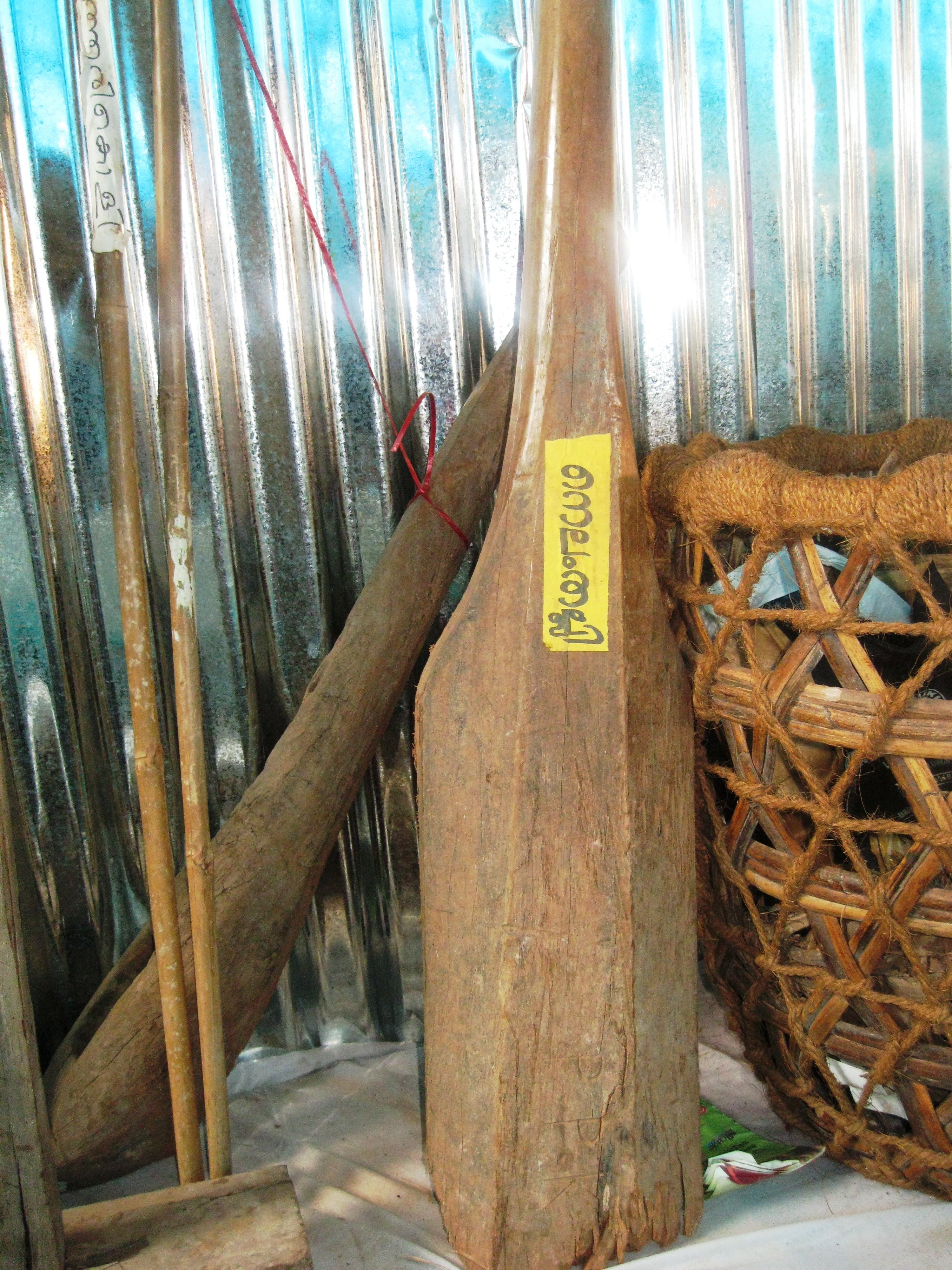 nilam thalli,to fix the floor